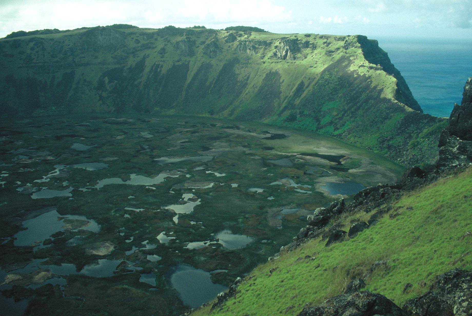 Easter Island, crater Rano Kao